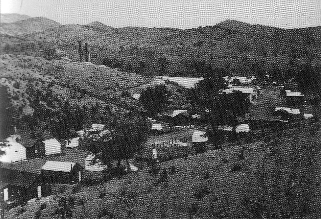 Harshaw, Arizona, circa 1880s.